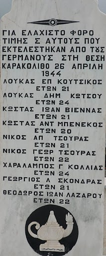 Memorial site in Kyriaki, Boieotia, Greece, which commemorates the fallen villagers from 26/4/1944